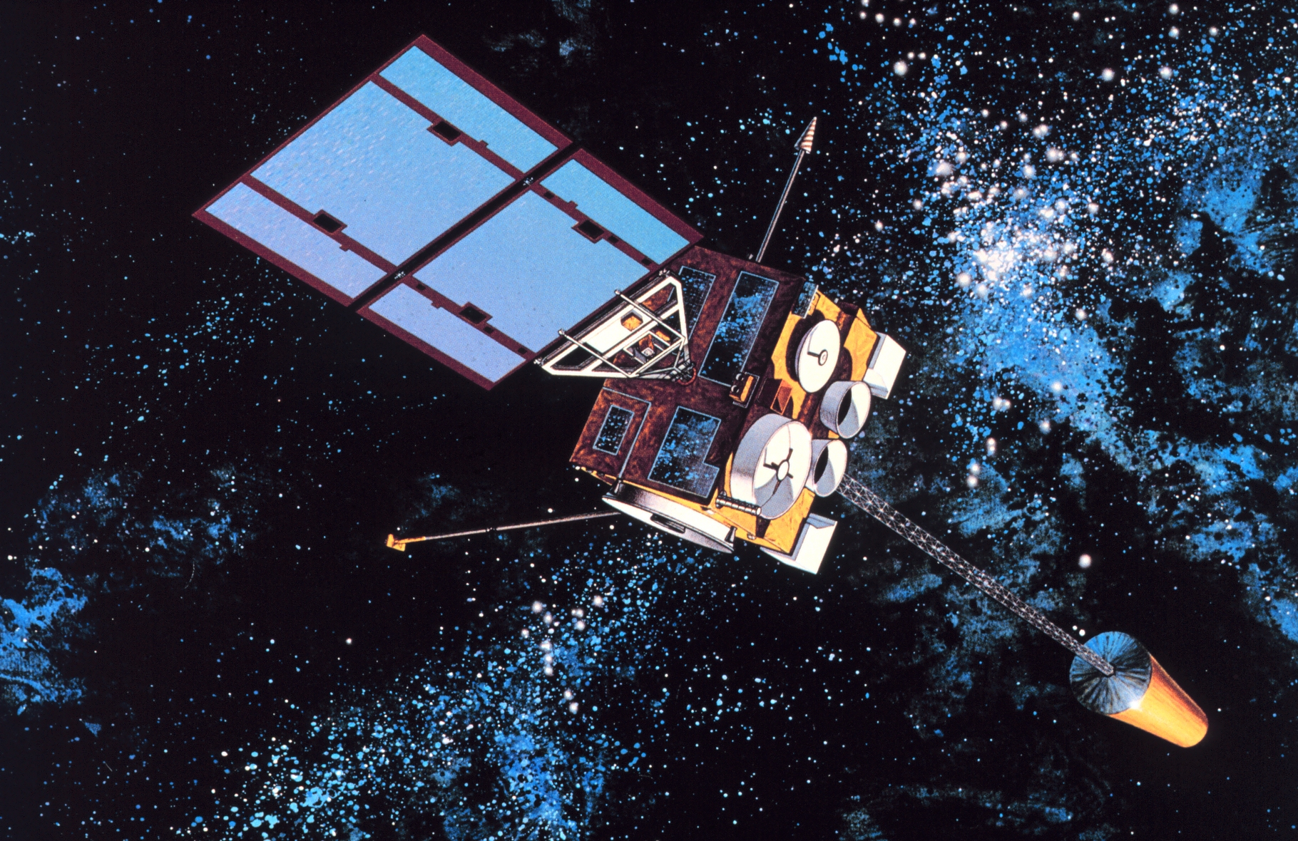 Graphic of GOES-I, the first of the GOES-NEXT spacecraft became GOES 8 after a successful launch on April 13, 1994.